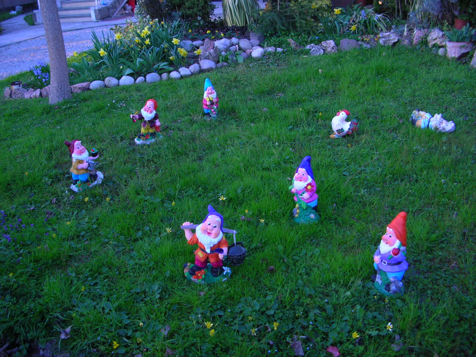 Set of garden dwarves in Padova, Italy.